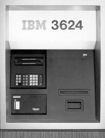 IBM 3624